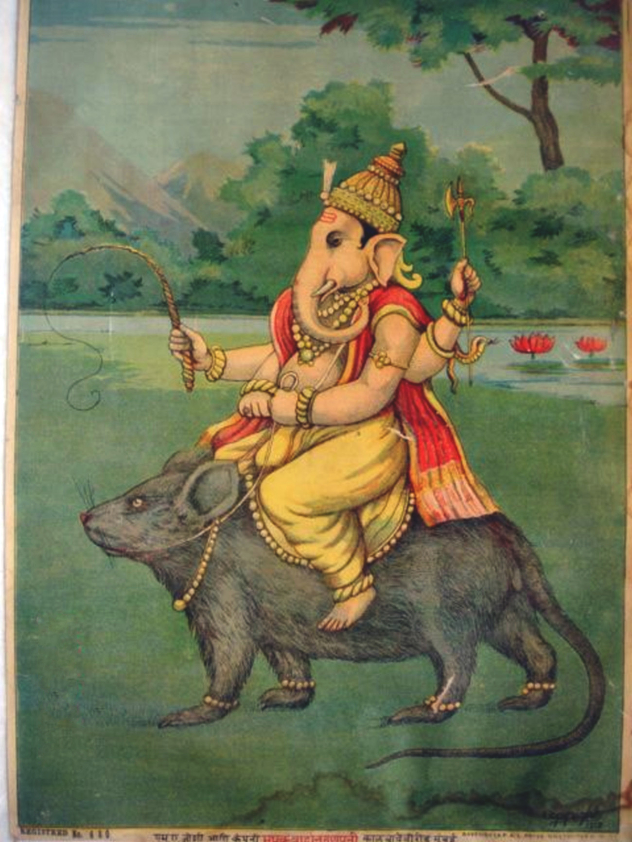 Ganesh on his vahana, a mouse or rat; bazaar art, 1910